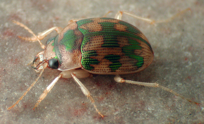 An imago of Omophron tessellatum (Coleoptera: Carabidae).